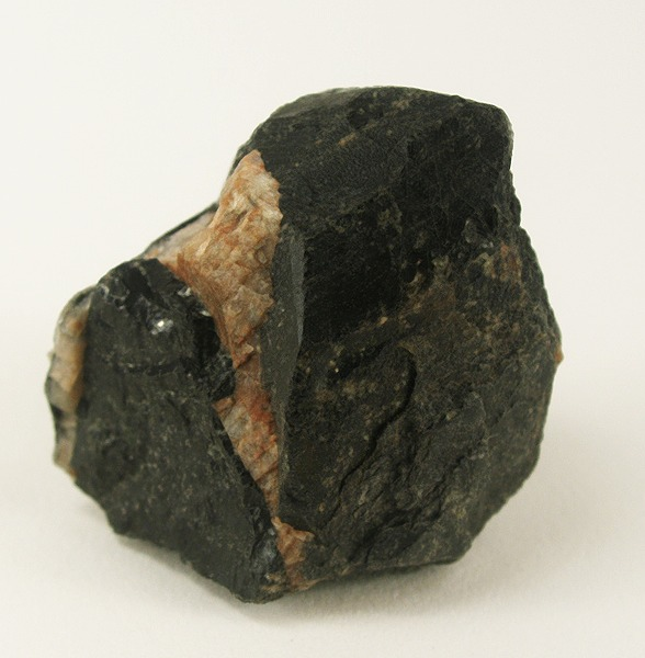 Gadolinite-(Y) Locality: Ytterby, Resarö, Vaxholm, Uppland, Sweden (Locality at ) Size: 2.3 x 2.2 x 2.0 cm. Gadolinite is a rare yttrium, beryllium silicate found in granites and alkalic granitic pegmatites. This old-time, lustrous, waxy, partially euhedral crystal is from the Type Locality in Sweden - Ytterby, Uppland. This classic piece comes with an expertly handwritten, faded label from an older collection. The collection this came out of was a museum stash, dating to prior to World War I.